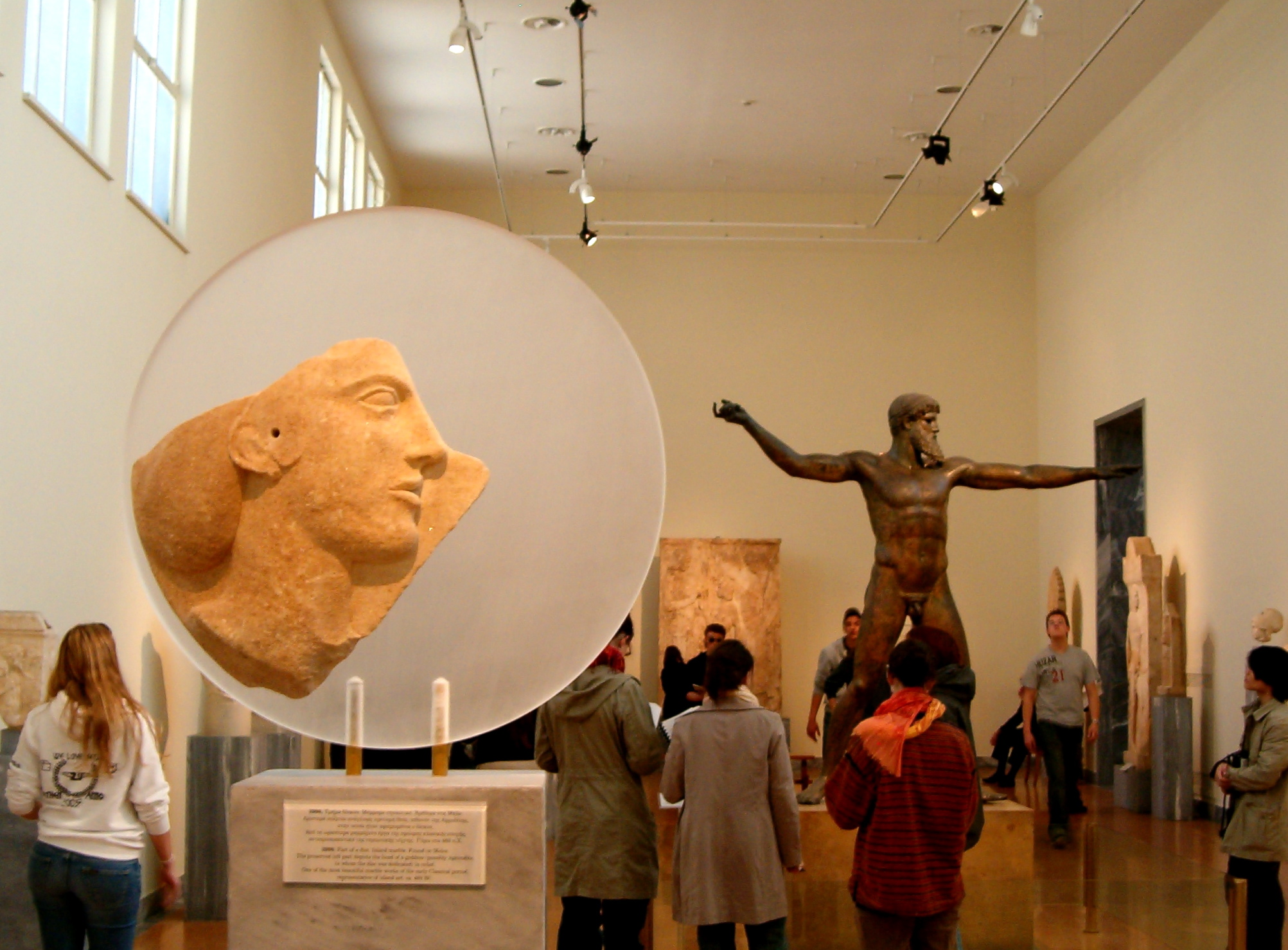 Room 15 in the Archeological National Museum of Athens, Greece - photo taken by Marcok of wikipedia on March 15, 2005